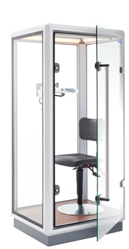 A modern body plethysmograph by GANSHORN (